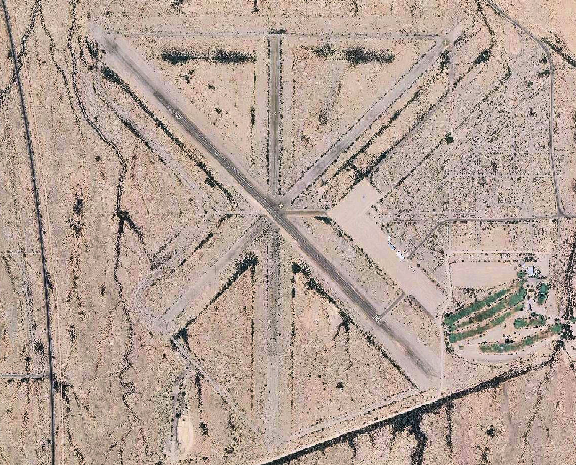 USGS digital orthophoto of Eric Marcus Municipal Airport in Pima County, Arizona, United States